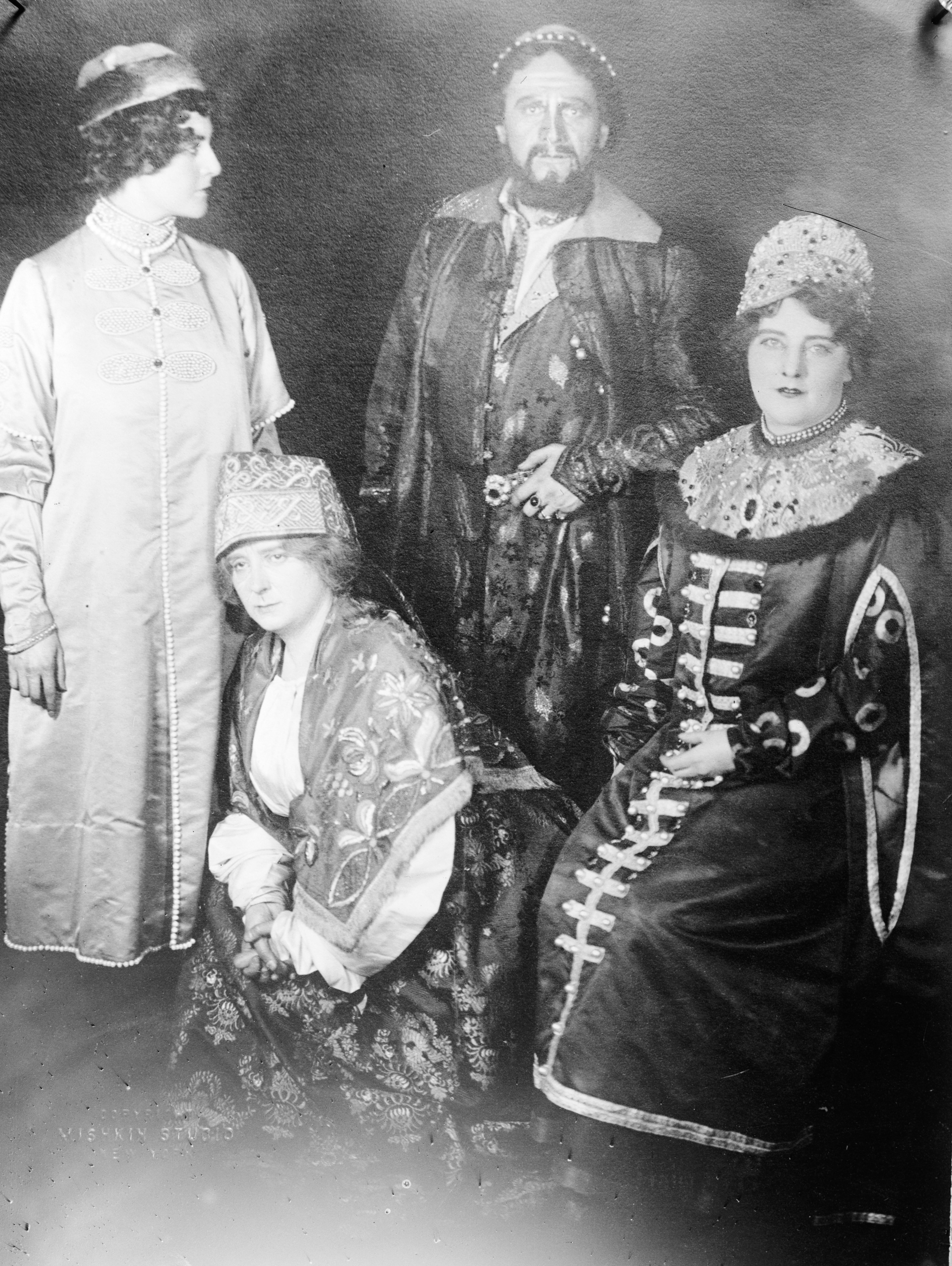 Gudonov_2808251229_95d1fc8b58_o_(1).jpg 1912 Metropolitan Opera premiere of Boris Gudonov with Anna Case, Maria Duchêne, Adamo Didur as Boris Godunov, and Leonora Sparkes. Bain News Service,, publisher. "Boris Godounow," Anna Case, Mme. Duchene, A. Didur, Leonora Sparkes [1913] 1 negative : glass ; 5 x 7 in. or smaller. Notes: Photo shows the cast of the Metropolitan Opera premiere of Boris Godunov, March 1913, including Polish bass singer Adam Didur (1874-1946) as Boris Godunov, soprano Anna Case as Theodore, Boris Godunov's son; Maria Duchene as the nurse, and mezzo-soprano Leonora Sparkes as Xenia, Boris Godunov's daughter. (Source: Flickr Commons project, 2008) Forms part of: George Grantham Bain Collection (Library of Congress). Format: Glass negatives. Repository: Library of Congress, Prints and Photographs Division, Washington, D.C. 20540 USA, General information about the Bain Collection is available at Persistent URL: Call Number: LC-B2- 2547-2